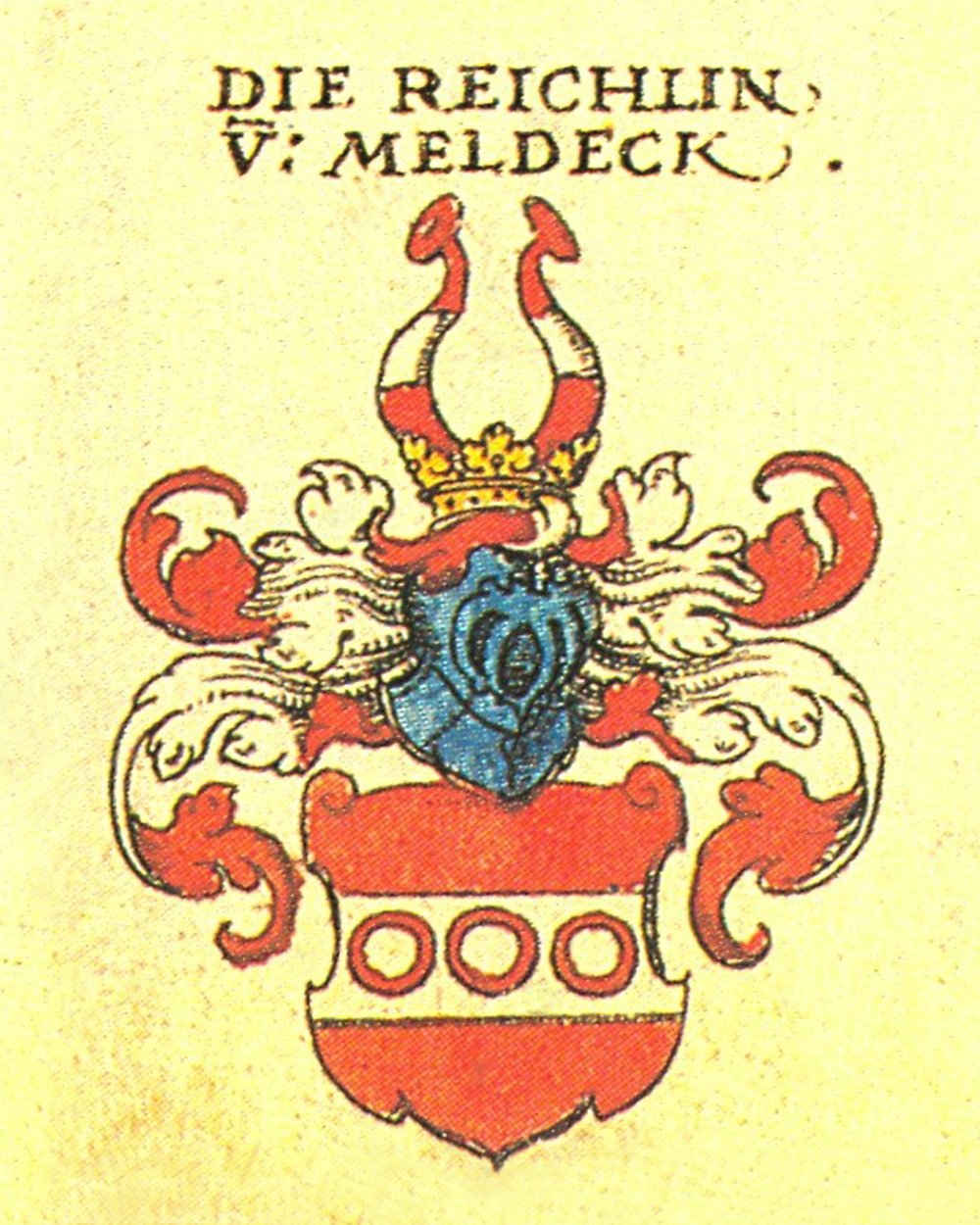 Coats of Arms of Reichlin von Meldeck